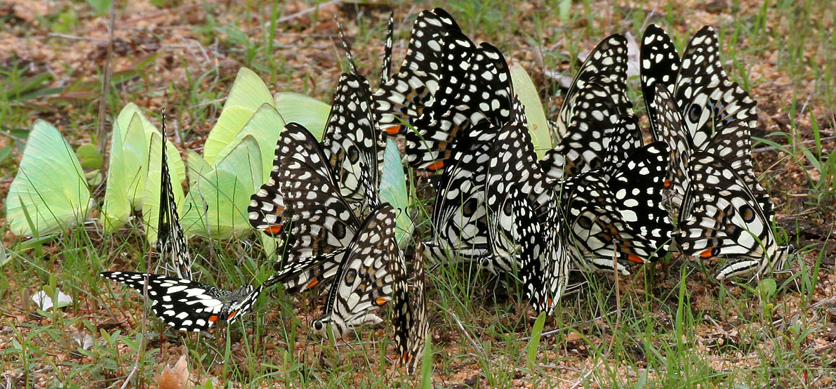 Common Emigrant or Lemon Emigrant Catopsilia pomona (syn. Catopsila crocale) & Lime Butterfly (or Lemon Butterfly, Small Citrus Butterfly, Chequered Swallowtail, Dingy Swallowtail) Papilio demoleus in Narsapur, Medak district, Andhra Pradesh, India.